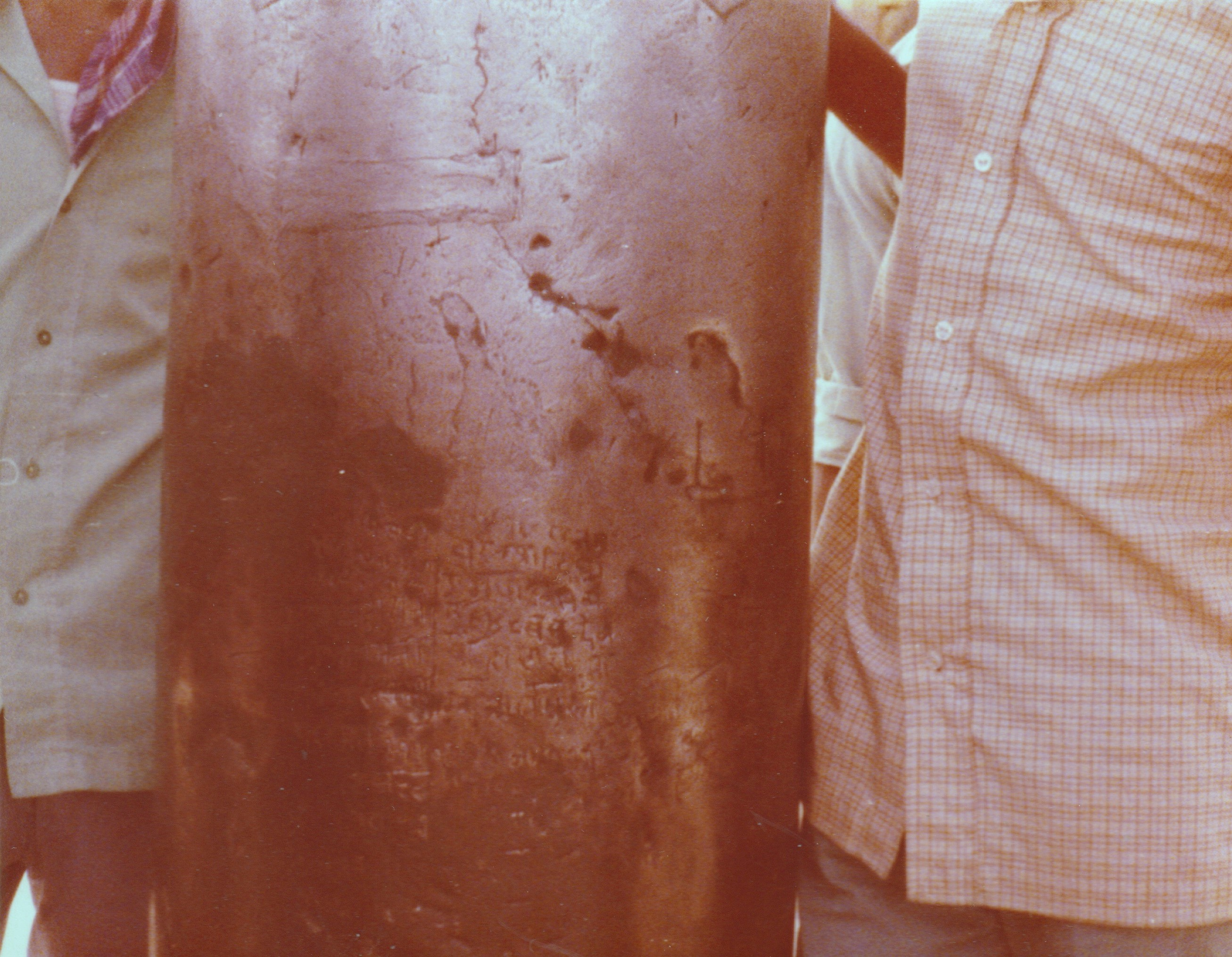 Iron pillar at Delhi